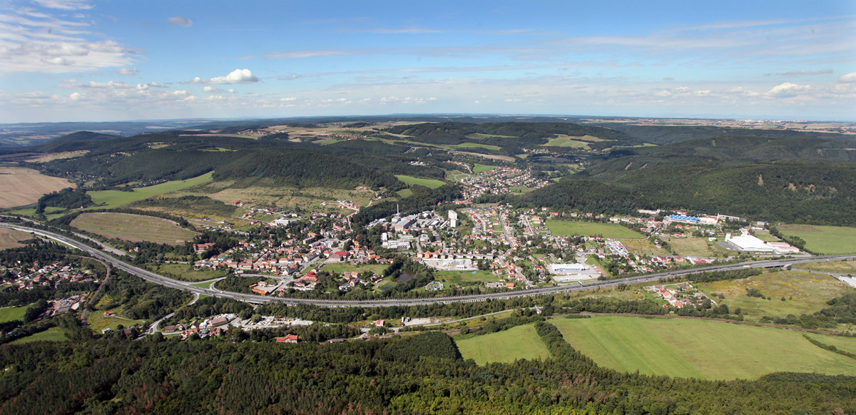 village Lodenice, Czech Republic